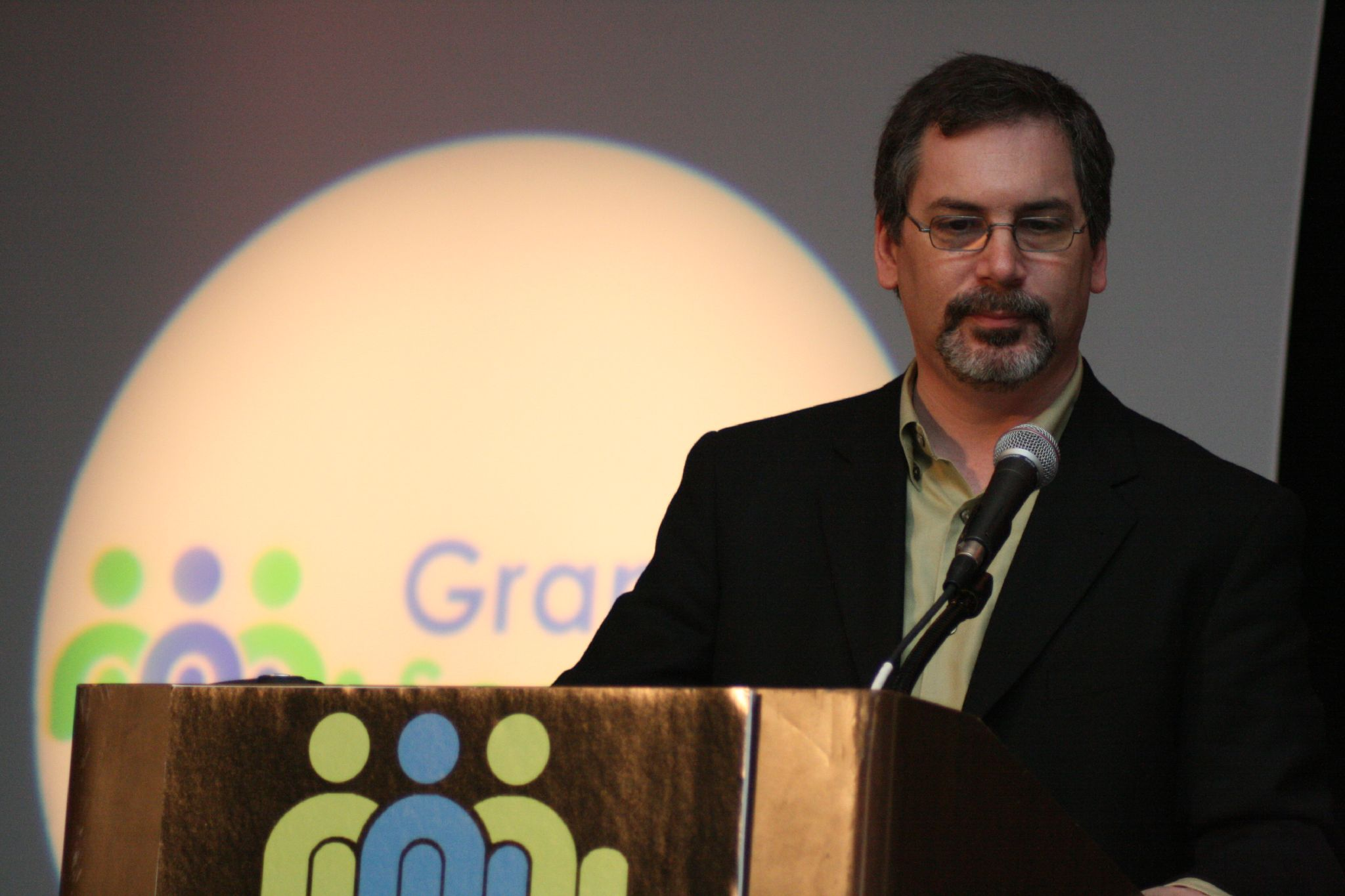 Graphing Social Patterns 07 Day Two - Rafe Needleman of Webware